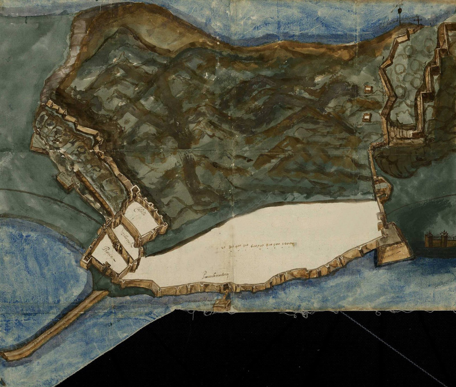 Map from 1597 (artist unknown) showing the fortifications of Gibraltar at that time